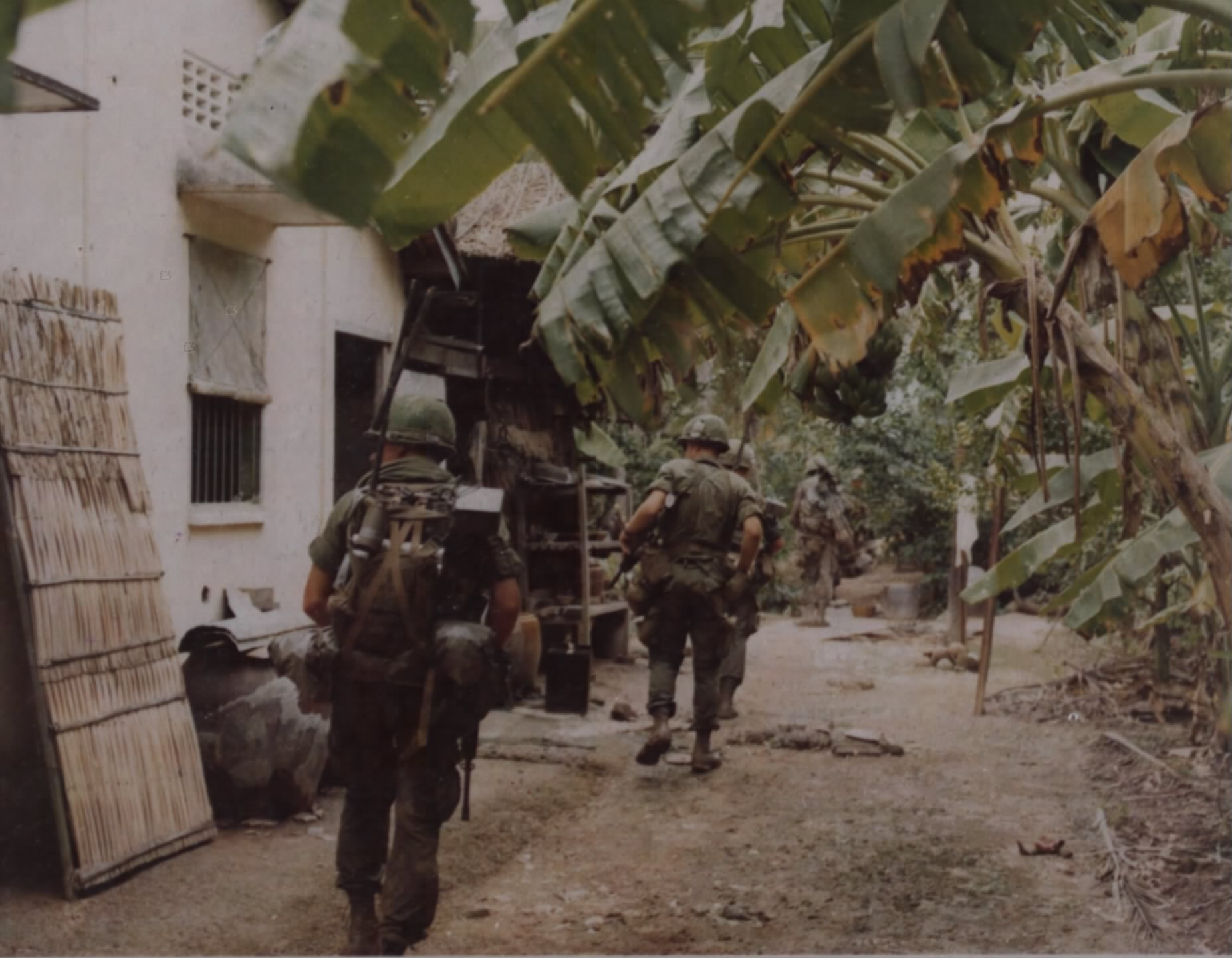 OPERATION TOAN THANG II. Members of Company "D", 4th Battalion, 12th Infantry, 199th Light Infantry Brigade (Separate), move through the outskirts of a small village during a sweep of the area.